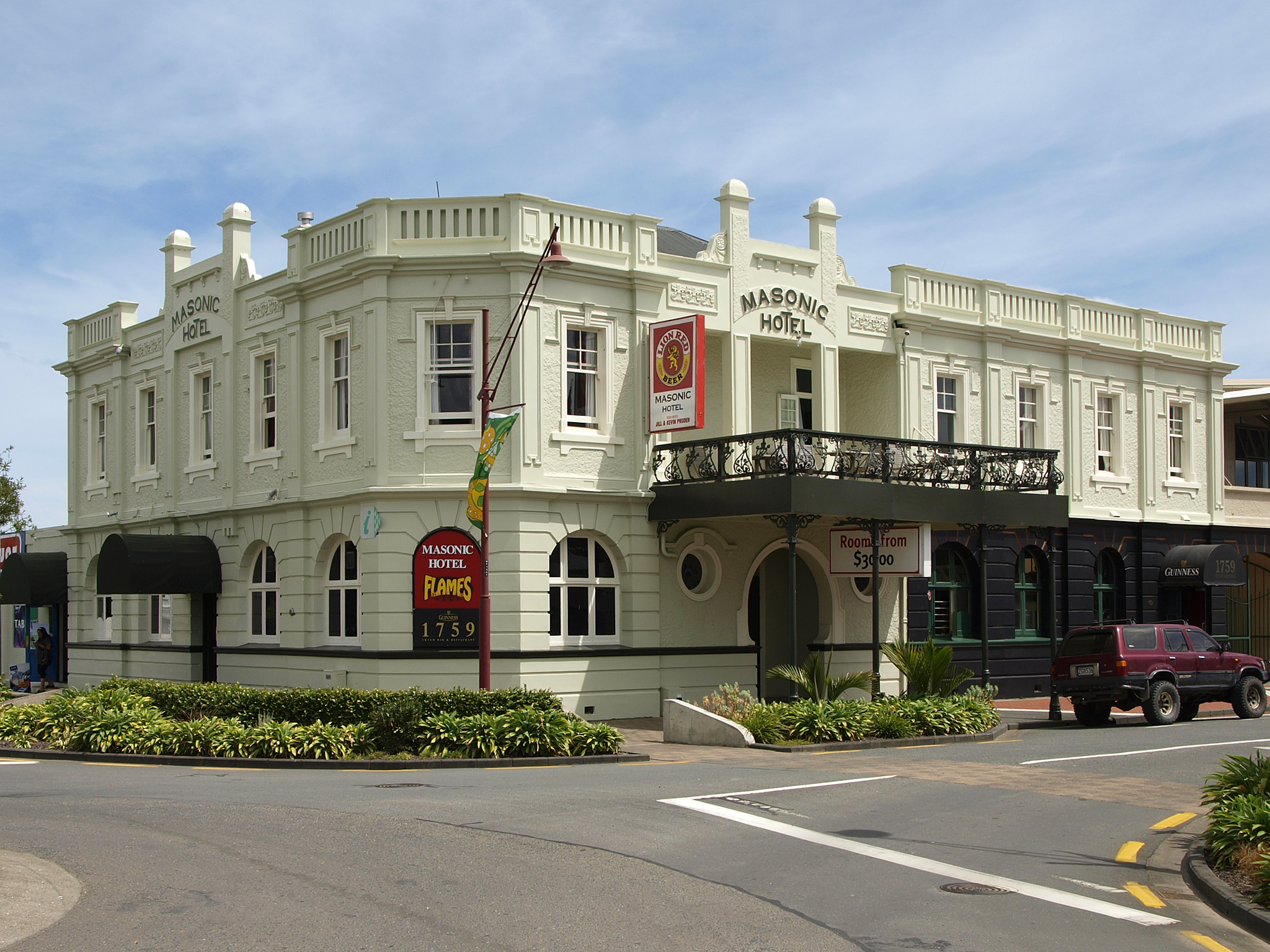 Masonic Hotel in Opotiki, Bay of Plenty, New Zealand, build 1919. Historical building.